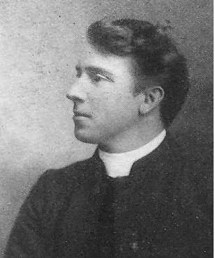 Photograph of E. I. Fripp (1861-1931) from a 1908 newspaper article reporting on the Leicester Unitarian Great Meeting Harvest Festival.